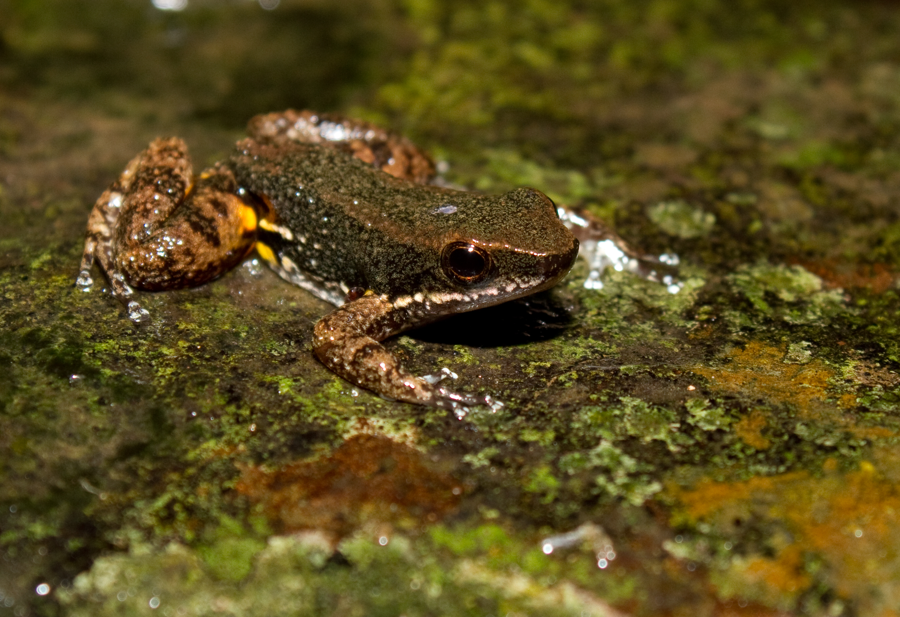 Panama Poison Dart Frog